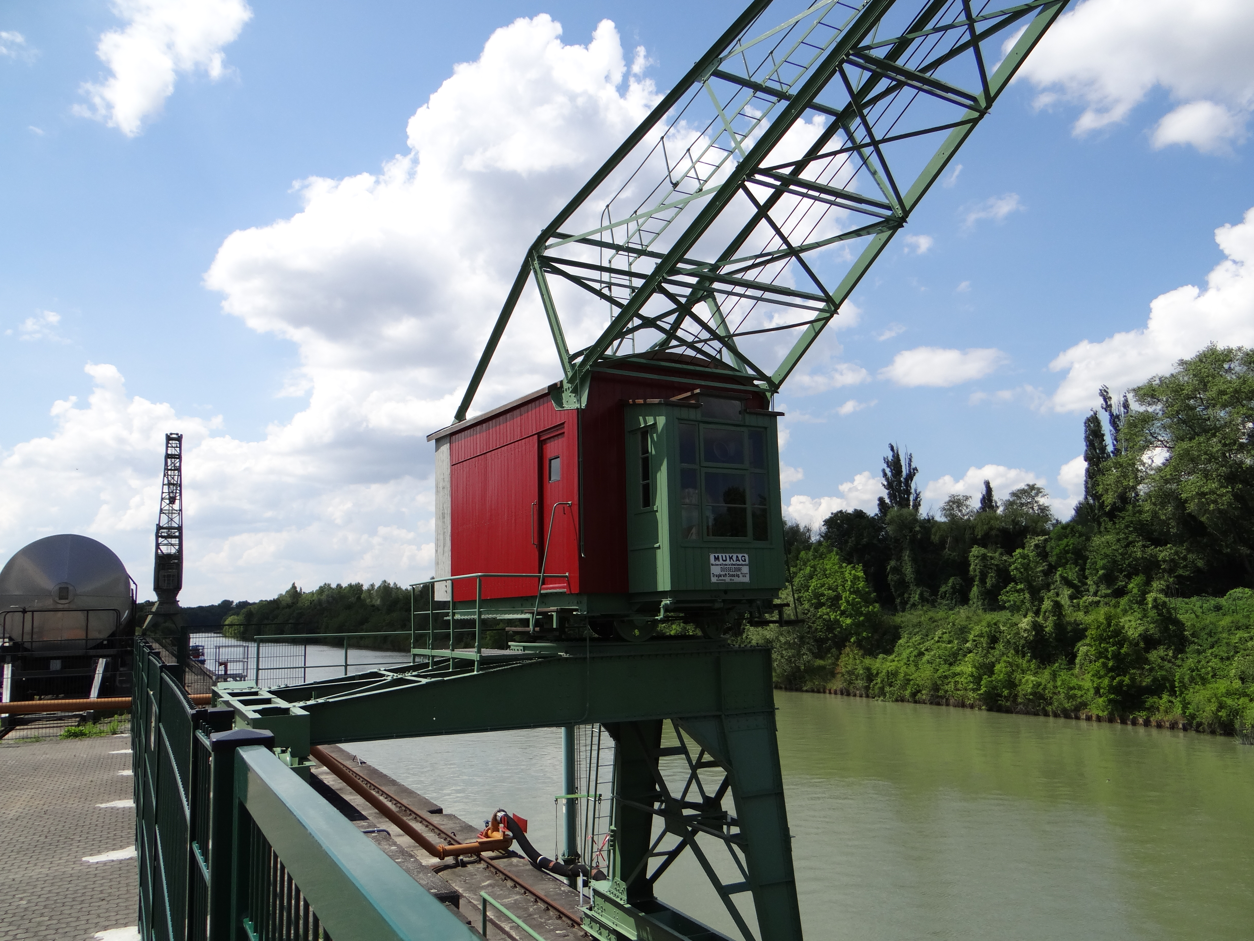 Port crane in Hannover, Germany.